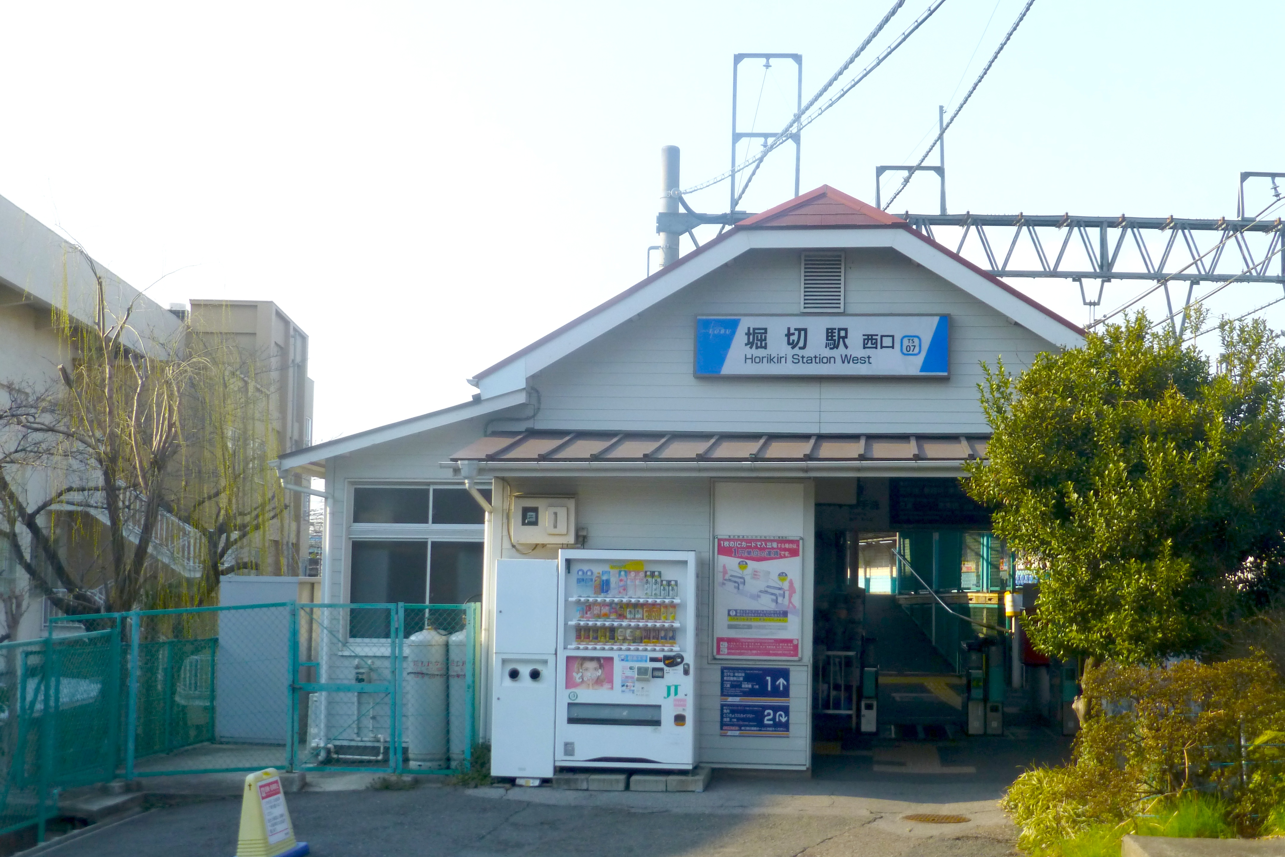 Horikiri Station (堀切駅 Horikiri-eki) is a railway station on the Tobu Skytree Line in Adachi, Tokyo, Japan, operated by the private railway operator Tobu Railway. This is the west exit (西口) of the station.